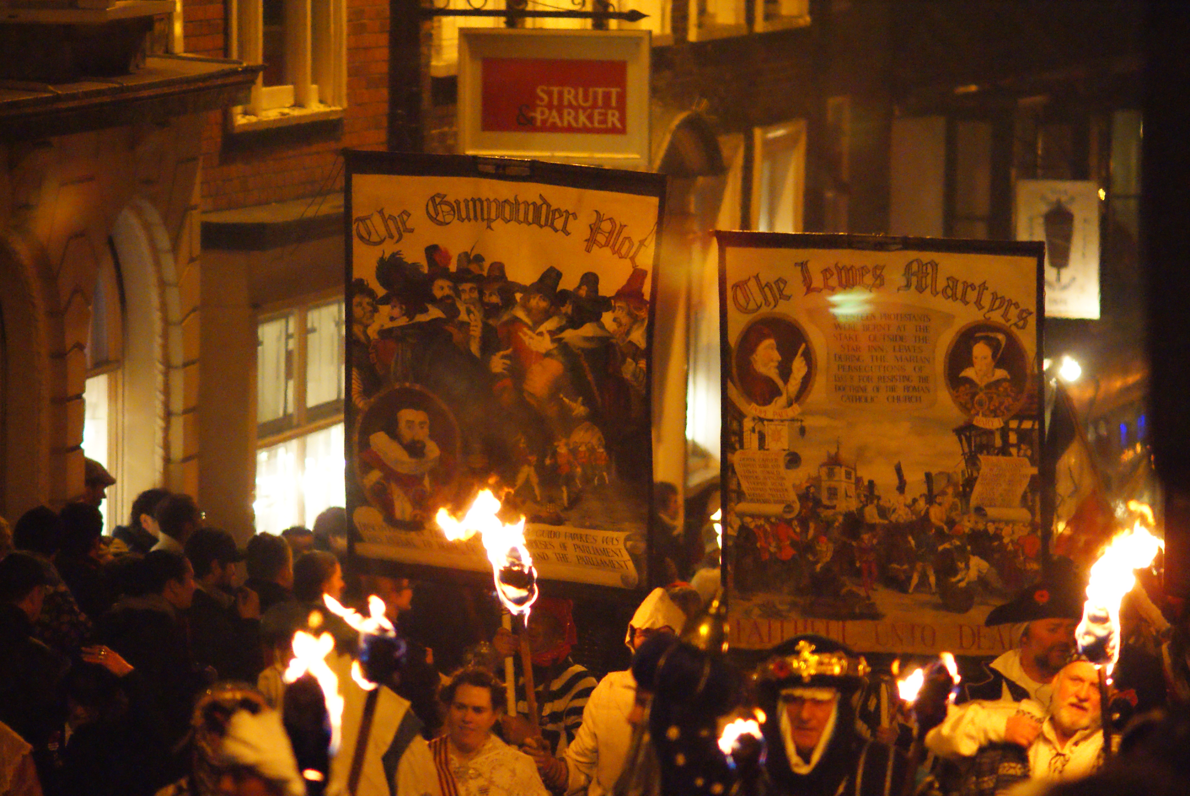 Lewes Guy Fawkes Night Celebrations